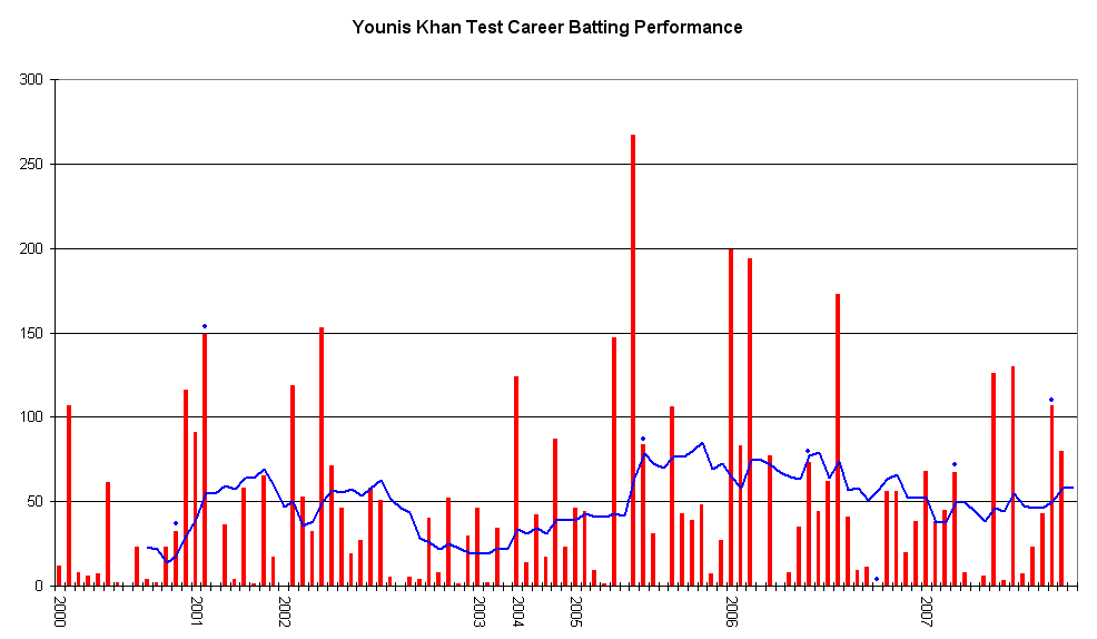 This graph details the Test Match performance of Younis Khan. It was created by Raven4x4x. The red bars indicate the player's test match innings, while the blue line shows the average of the ten most recent innings at that point. Note that this average cannot be calculated for the first nine innings. The blue dots indicate innings in which Younis finished not-out. This graph was generated with Microsoft Excel 2002, using data from Cricinfo [1] and Howstat [2]. The information in this chart is current as of 16 December 2007.